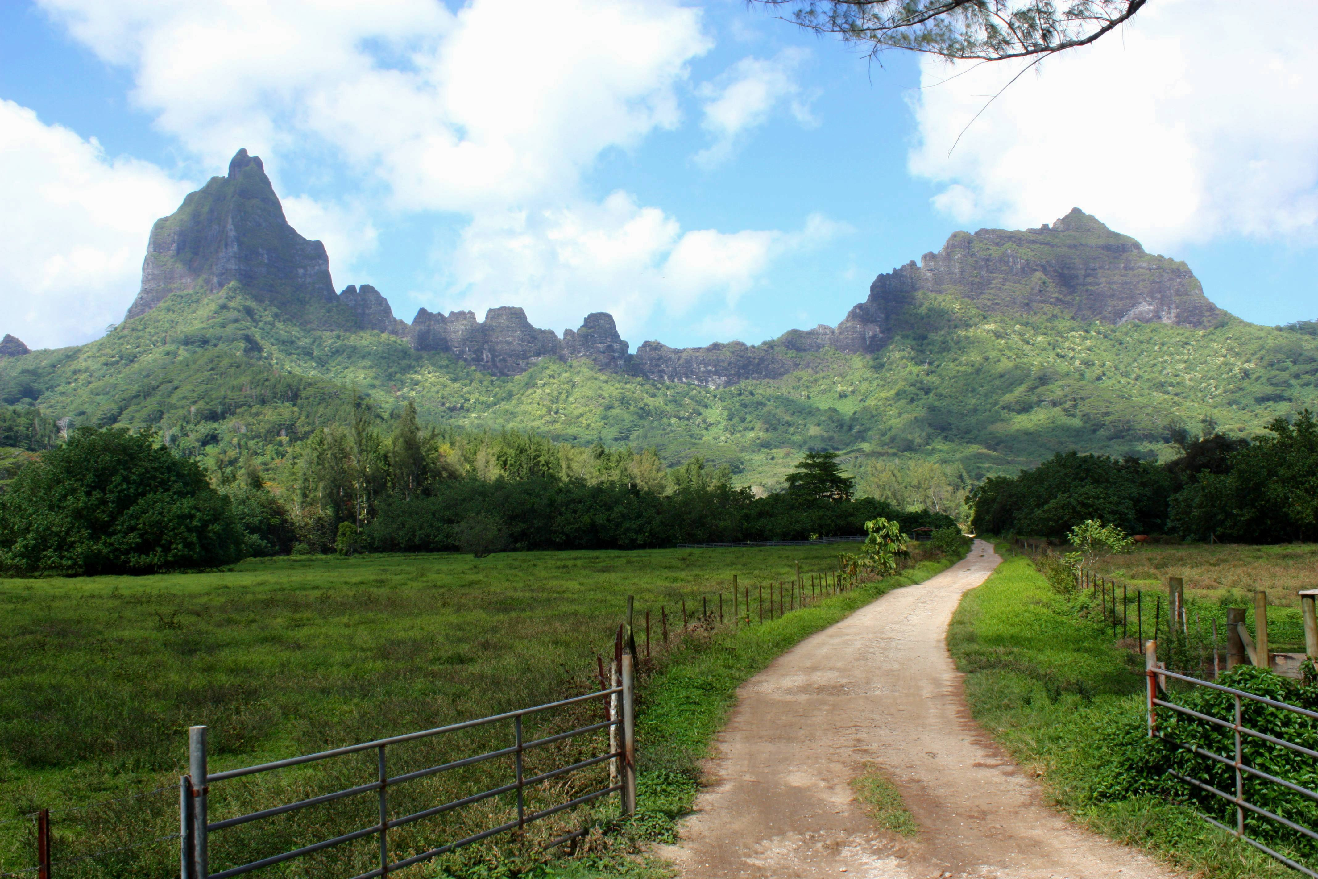 This view show the mountain from ancient Caldéra of the Initial Volcano which created the island . The Mount Mauapu is on left and Mount Matotéo on right